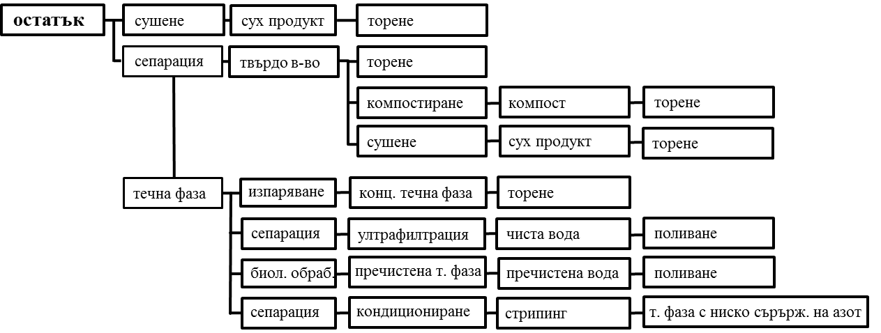 bogas_use_Fuchs_and_Drosg_2010